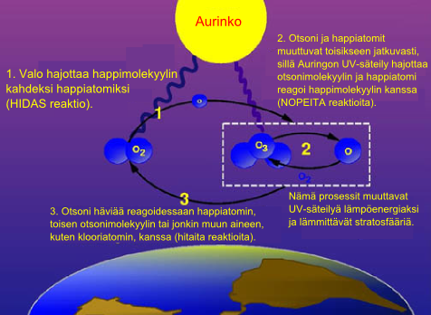 Ozone cycle with Finnish captions, see Image:Ozone cycle.jpg